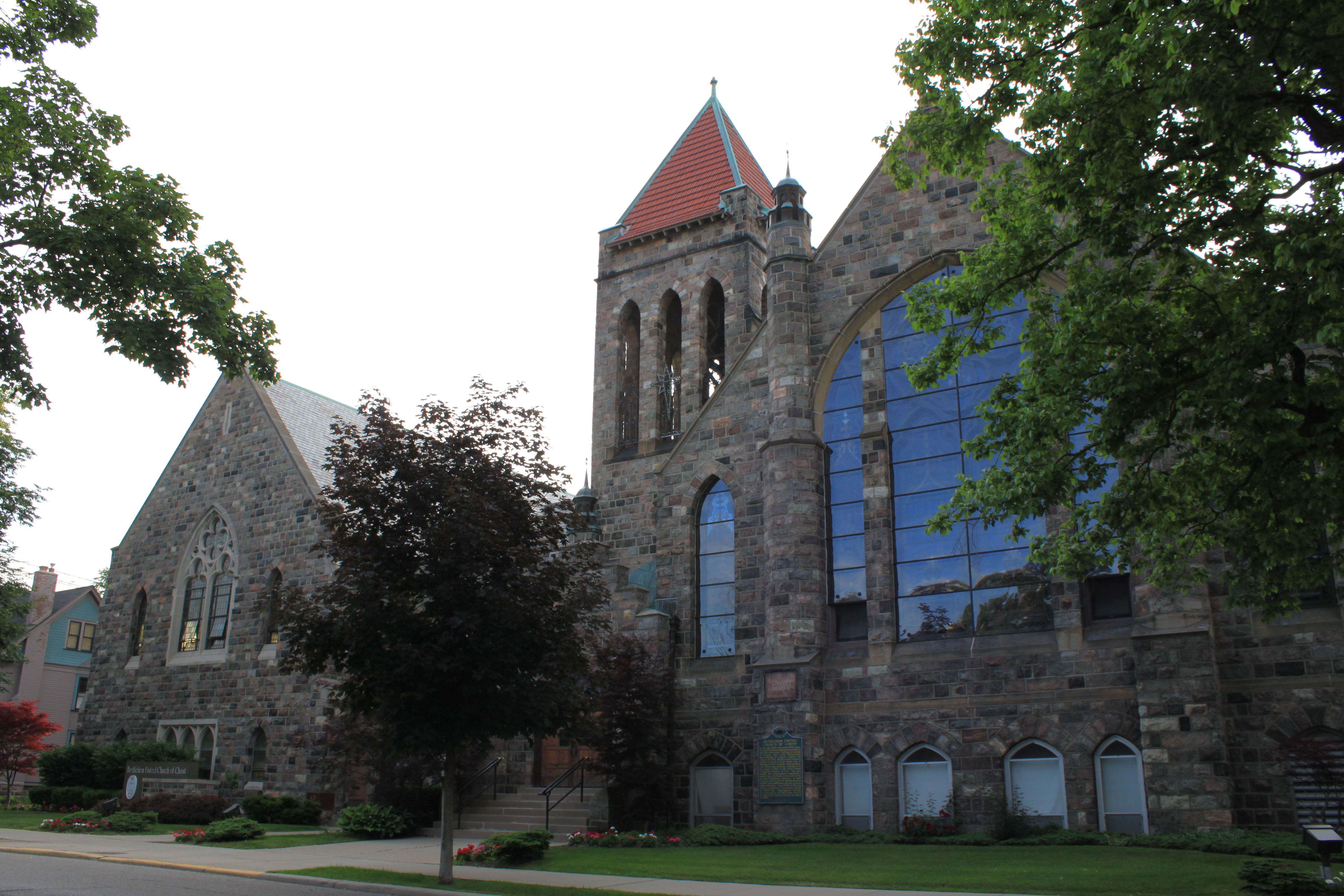 Bethlehem United Church of Christ, 430 South Fourth Avenue, Ann Arbor, Michigan